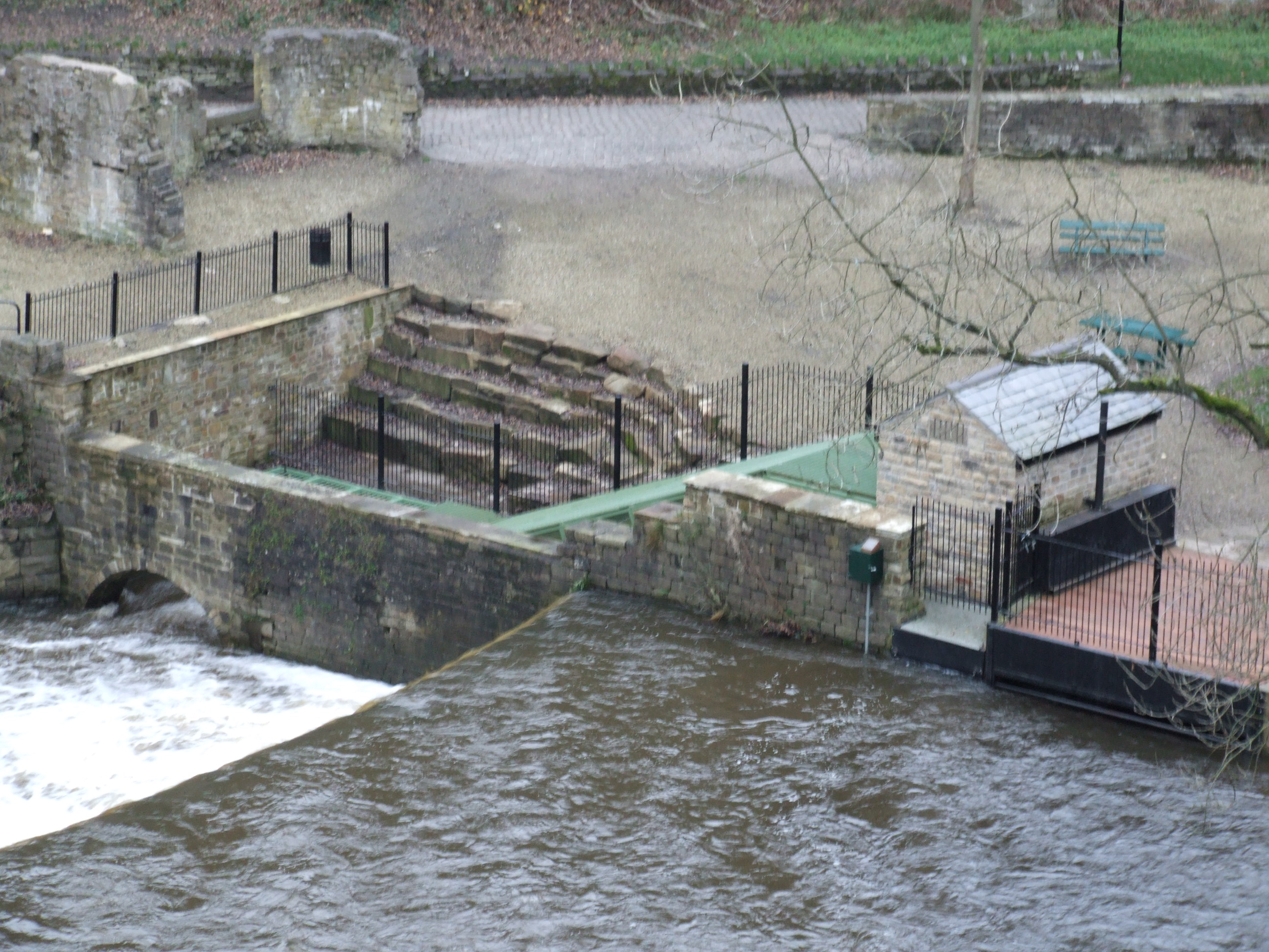 Torrs Hydro, New Mills is in New Mills, a village in the Peak District. It lies close to the confluence of the River Sett and the River Goyt.